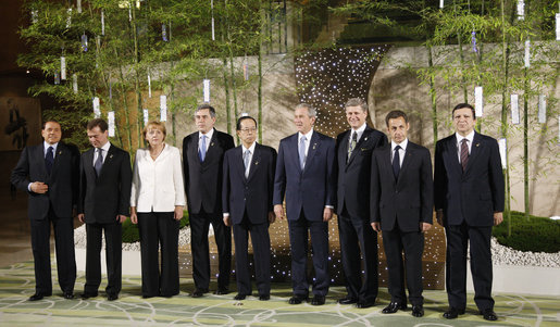 Leaders of Group of Eight pose for photos Monday, July 7, 2008, prior to dinner at the Windsor Hotel Toya Resort and Spa in Toyako, Japan. From left are: Prime Minister Silvio Berlusconi of Italy; President Dmitry Medvedev of Russia; Chancellor Angela Merkel of Germany; Prime Minister Gordon Brown of the United Kingdom; Japan's Prime Minister Yasuo Fukuda; President George W. Bush of the United States of America; Prime Minister Stephen Harper of Canada; President Nicolas Sarkozy of France, and President José Manuel Barroso of the European Commission. In the background is tanabata decoration.